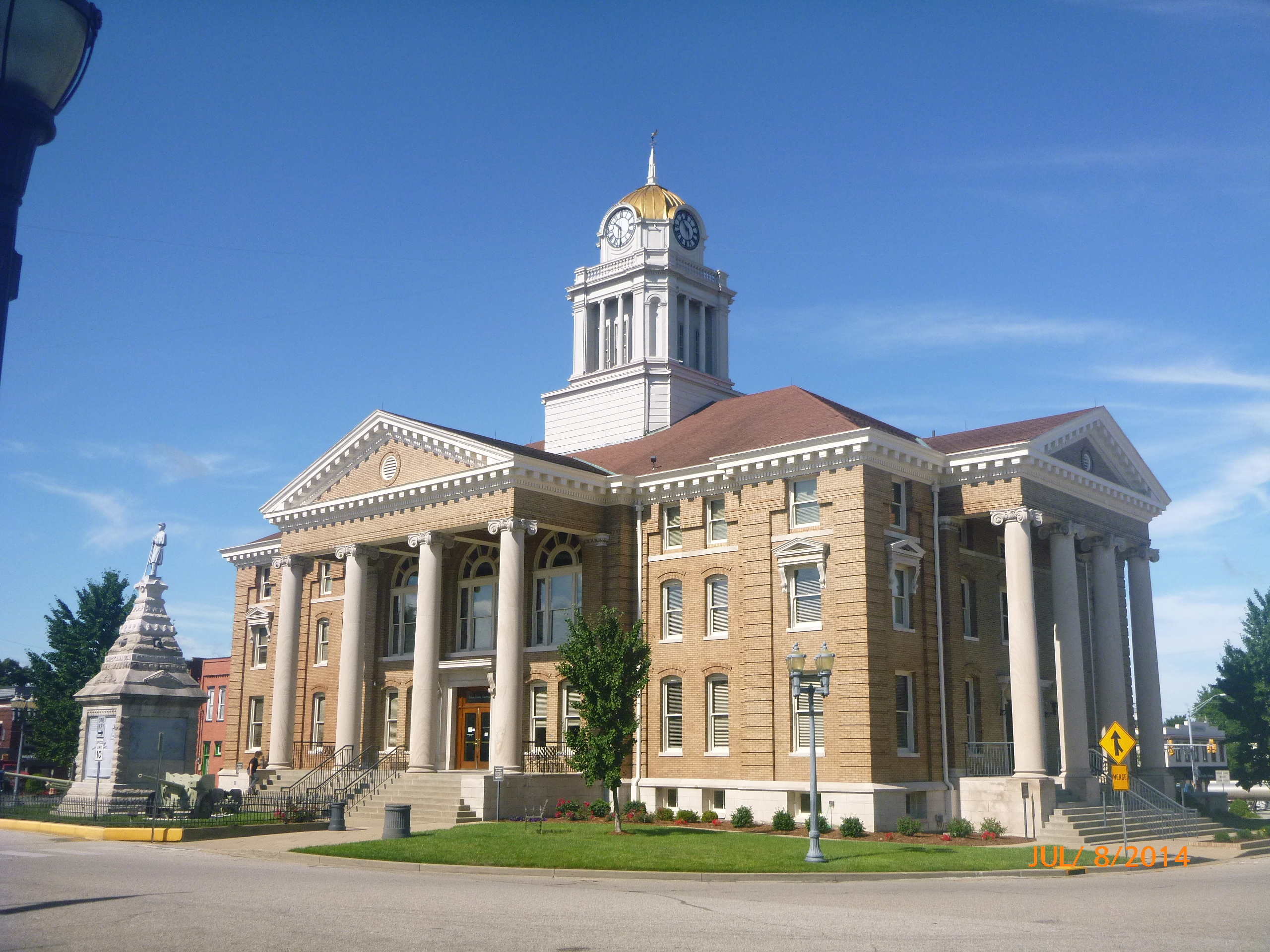 Dubois County Courthouse located on the square in Jasper, Indiana.